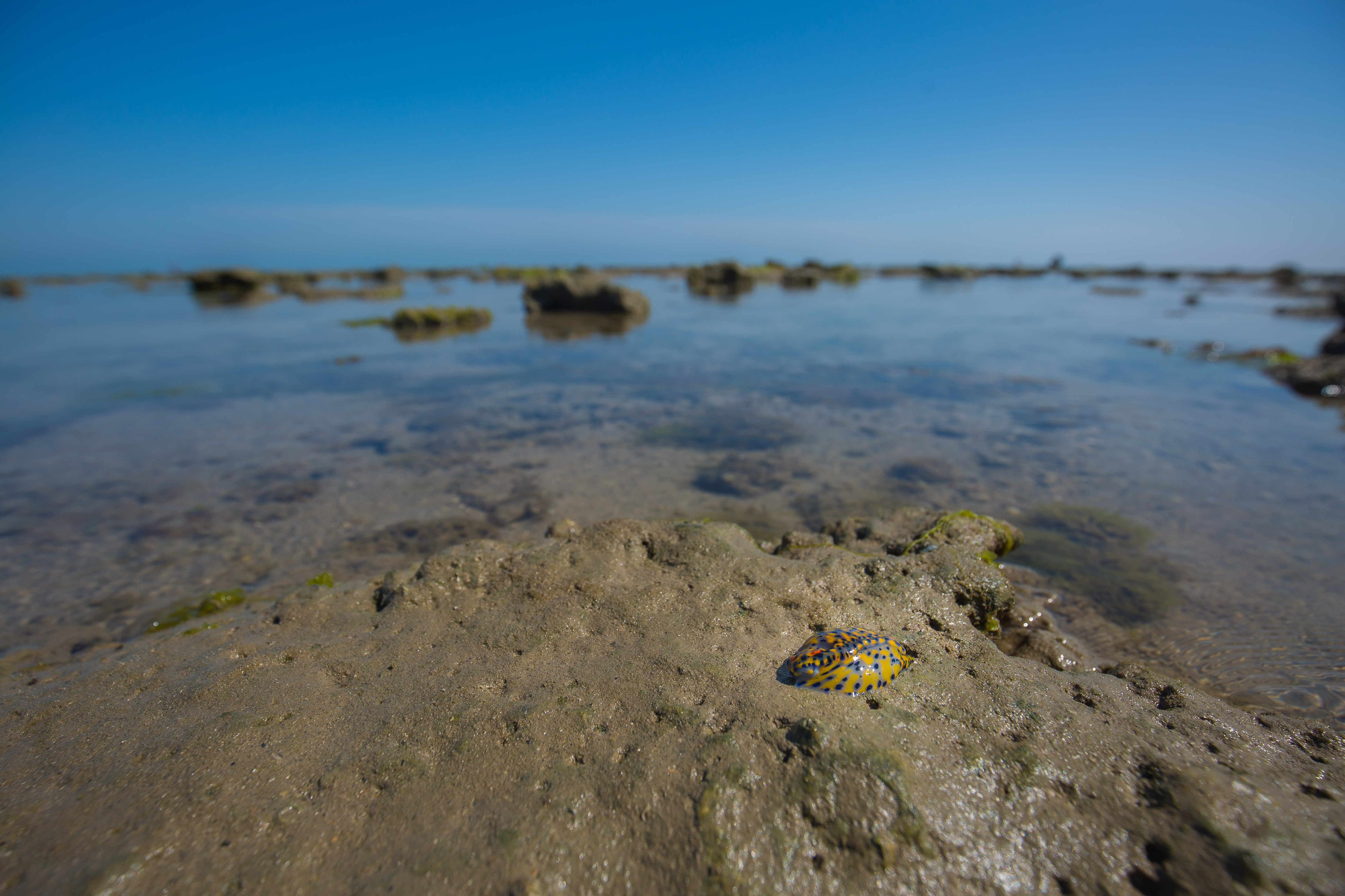 As the sea resides, the sea creatures get exposed to the harsh sunlight before the retreat to the deep waters or take cover under rocks.